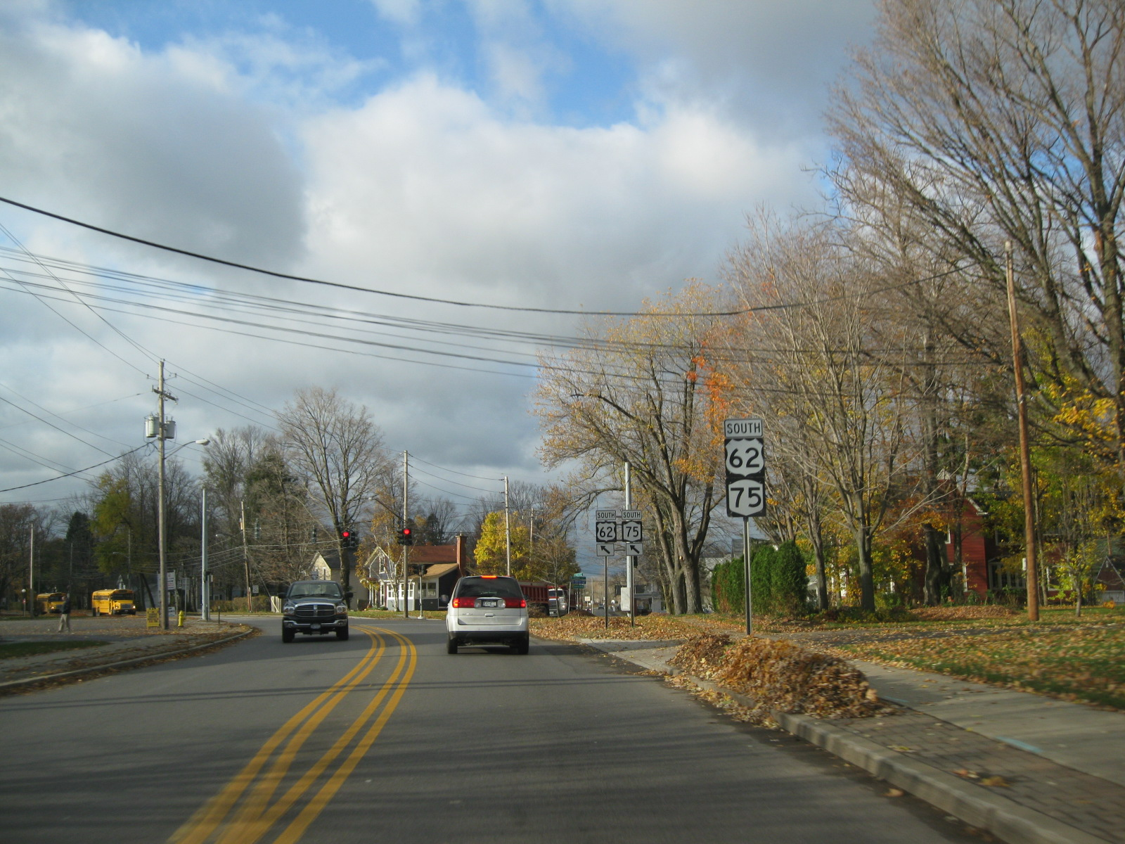 First southbound reassurance markers on the concurrency between U.S. Route 62 and New York State Route 75 in Hamburg.